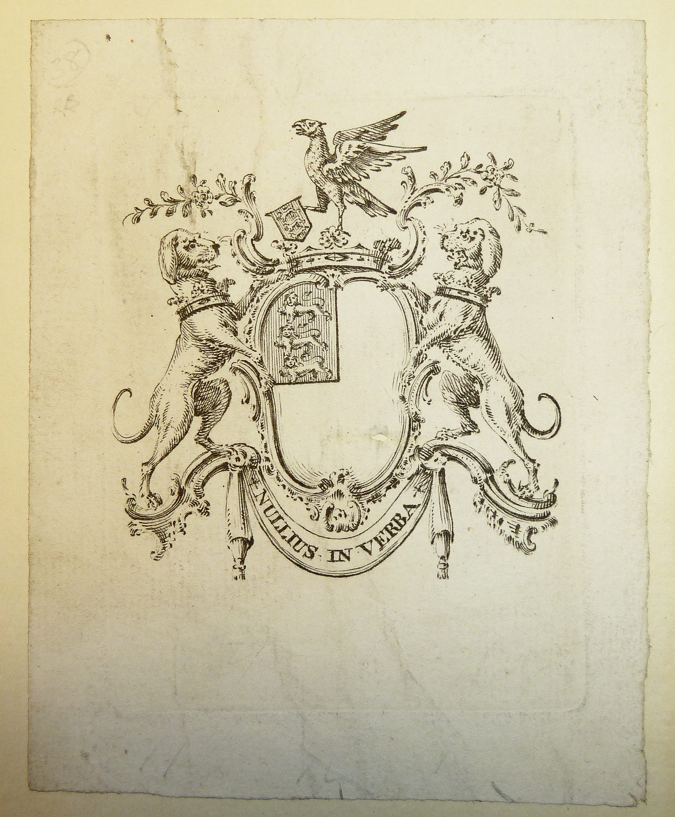 Bookplate of the Royal Society (Great Britain) Motto: Nullius in verba This book was given to the the Royal Society by Henry Howard, 6th Duke of Norfolk (1628-1684) along with the greater part of his library. Established heading: Norfolk, Henry Howard, Duke of, 1628-1684 Established heading: Royal Society (Great Britain) Penn Libraries call number: SC5 Az727 571a 1574 All images from this book